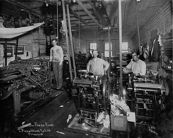 Section Press Room, T. Fitzwilliam Company Ltd., New Orleans. Photograph by Covert, 1917. Shows a line shaft power system, with several small platen jobbing presses at right, and a cylinder press at left.